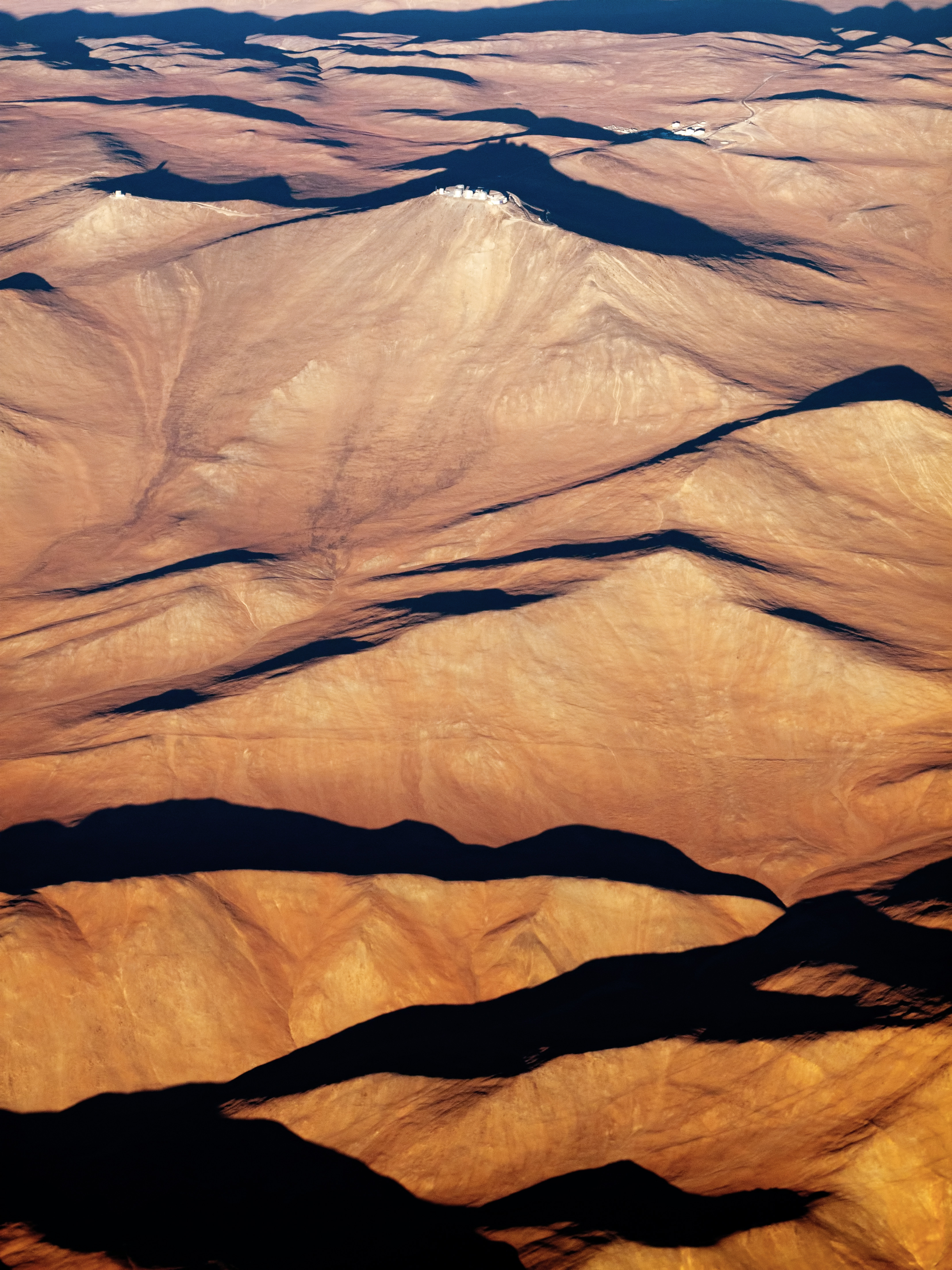 This stunning aerial image shows the hills and mountains surrounding ESO’s Paranal Observatory in Chile. From above, the sharp, rocky details of the arid landscape melt away, giving way to textures more akin to softly rippling fabric. The cluster of buildings in the top right of the frame contains both the observatory’s basecamp and the Residencia, where the staff and visitors to Paranal can seek refuge from the harsh desert conditions. The solitary buildings to the left of the main observatory complex house the VISTA survey telescope. This image was taken by Gerhard Hüdepohl, one of ESO’s Photo Ambassadors. He works for ESO as an electronics engineer and has lived in Chile since 1997, where he works at the Very Large Telescope on Cerro Paranal.